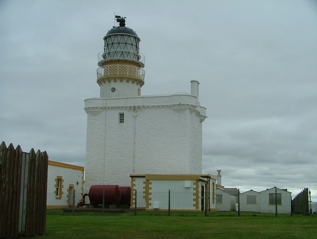 Kinnaird Head Lighthouse, Fraserburgh, Aberdeenshire